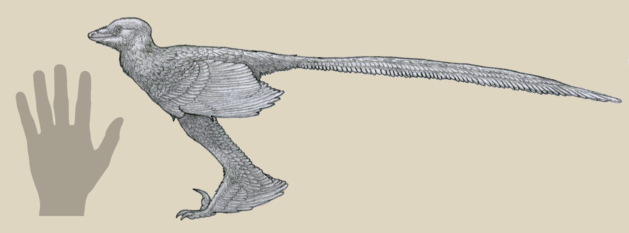 Life reconstruction of Zhongjianosaurus yangi by Tom Parker.